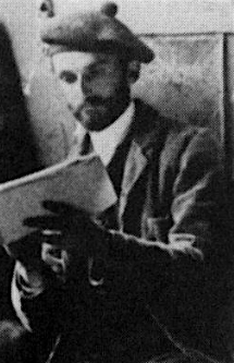 Portrait of Arthur Wesley Dow in his studio in Ipswich, Massachusetts, USA